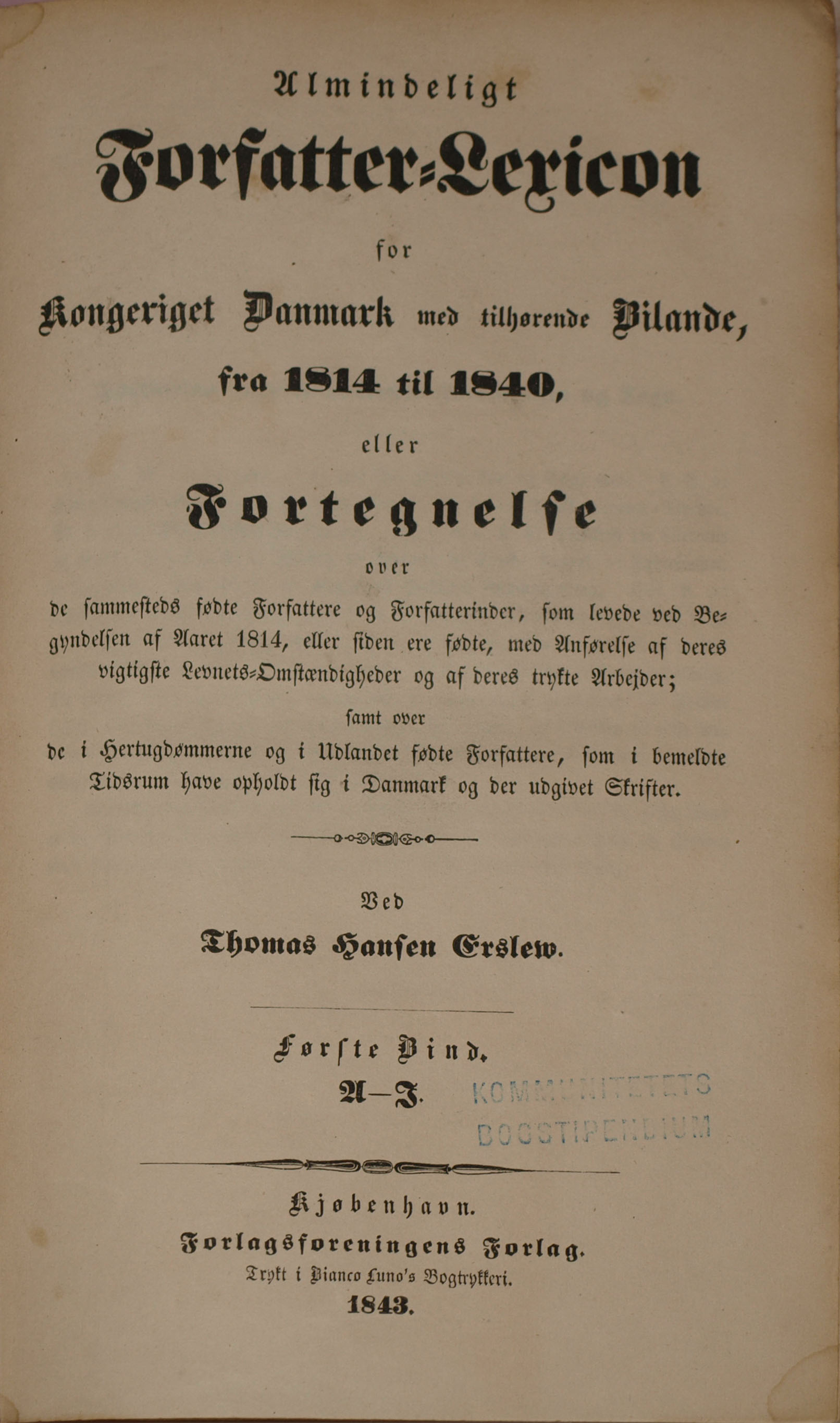 Thomas Hansen Erslews Almindeligt Forfatter-Lexicon for Kongeriget Danmark med tilhørende Bilande fra 1814 til 1840, 1844.